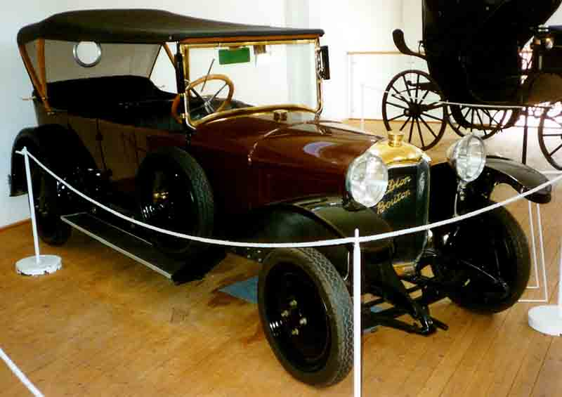 1921 De Dion-Bouton Type ID Torpedo